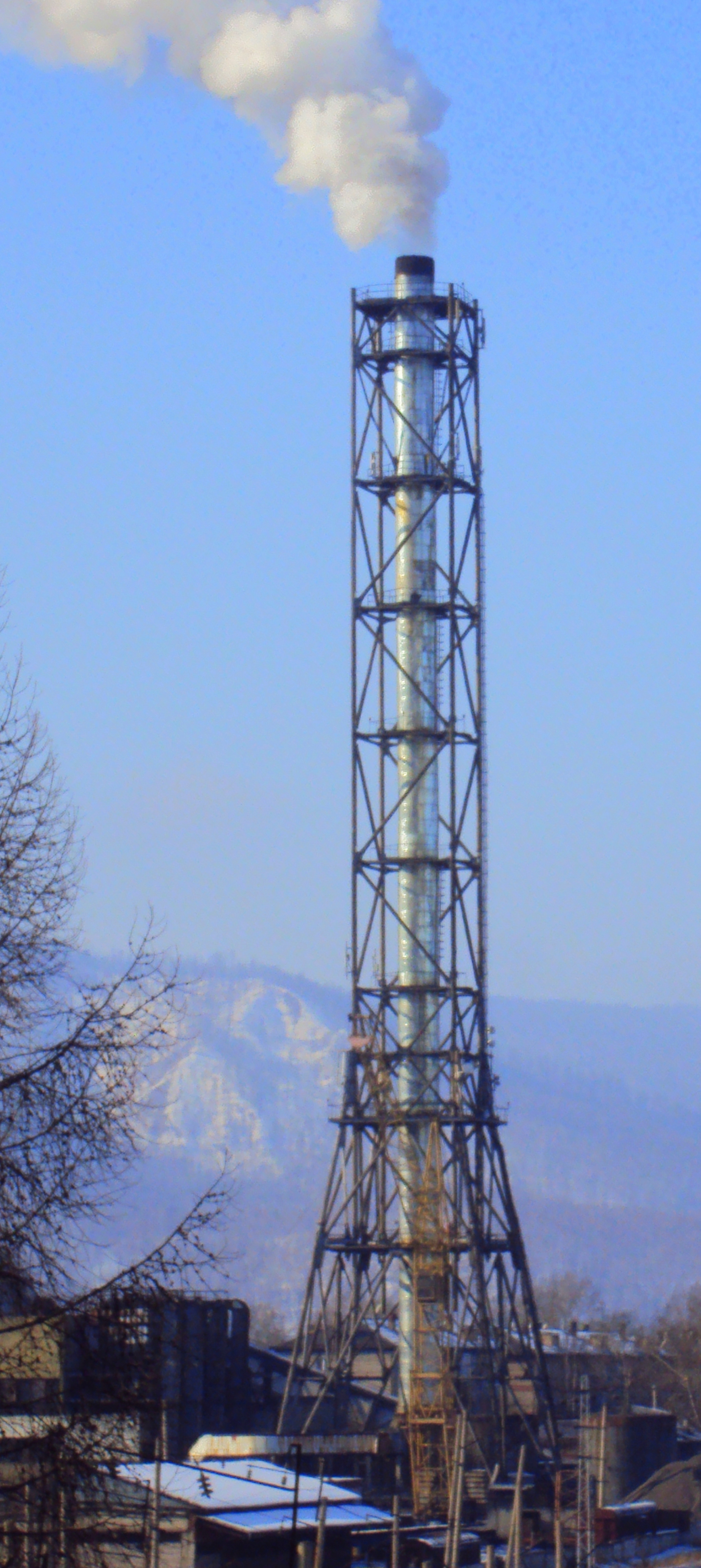 Труба центральной котельной города Слюдянки